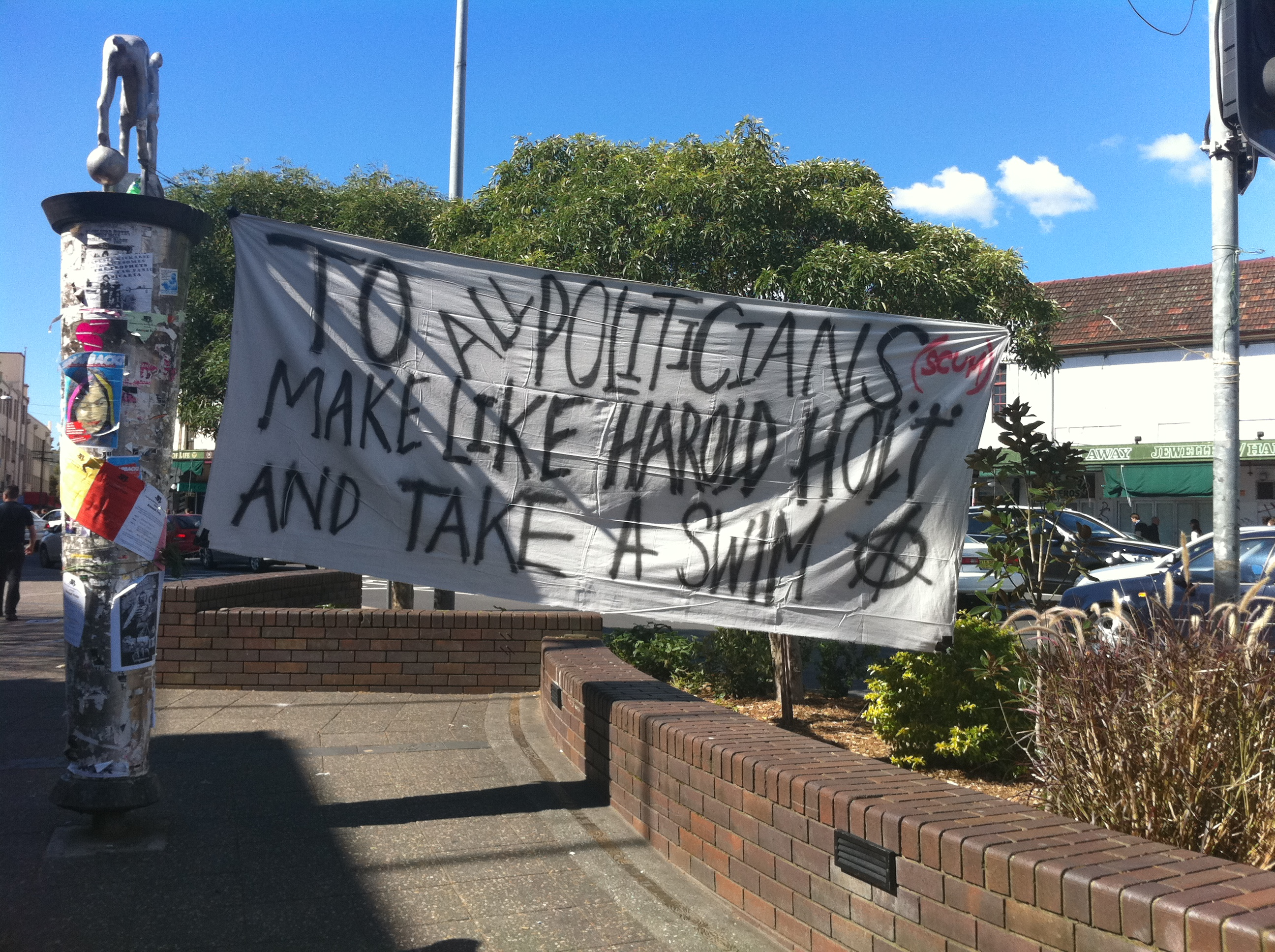 A poster at the 2010 Australian federal election, referencing Harold Holt's apparent drowning death